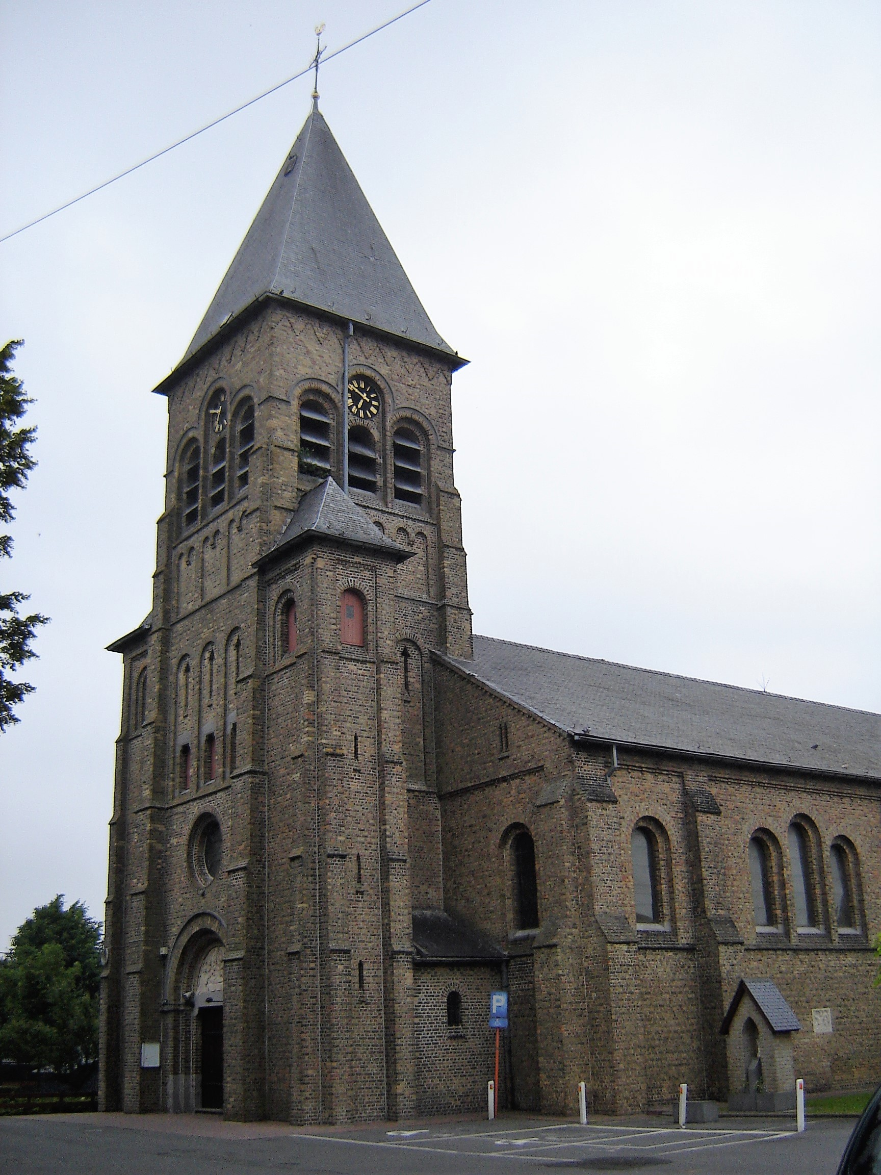 Church of Saint Margaret in Geluveld, Zonnebeke, West-Flanders, Belgium